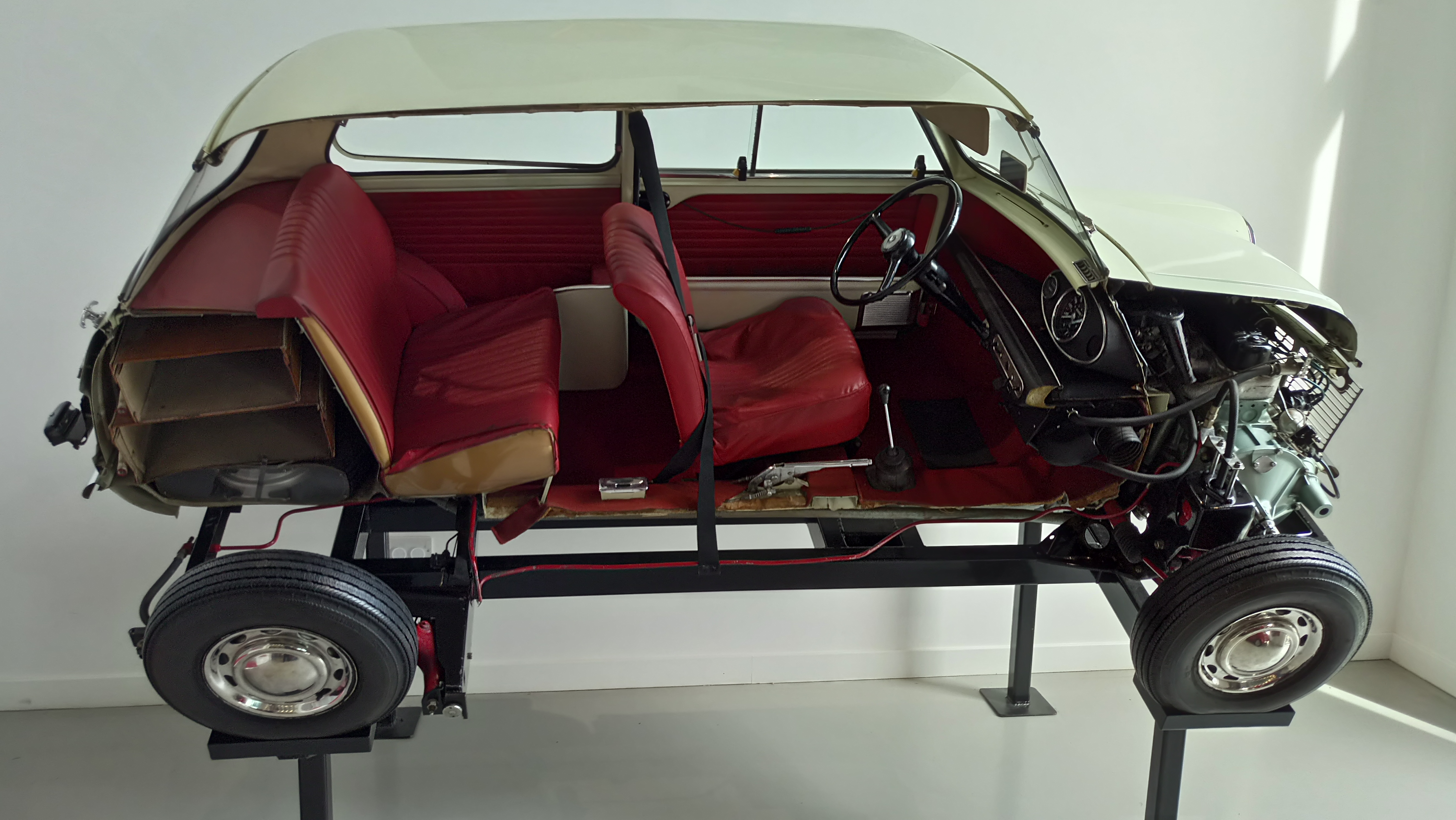 Mini cutaway display at Haynes International Museum in Sparkford.